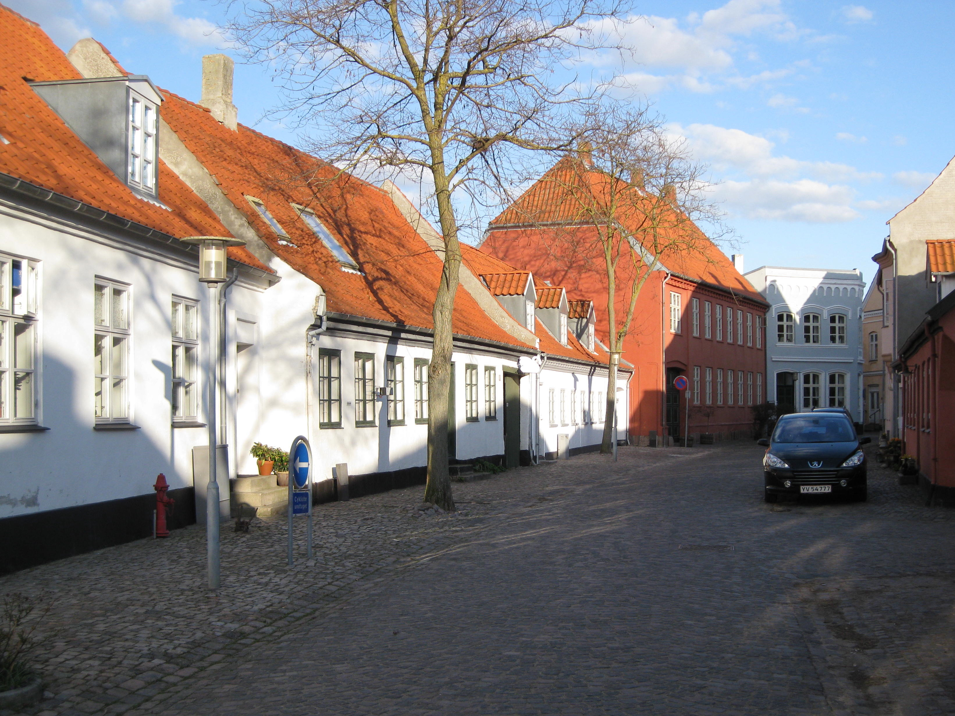 The small street "Rosenstræde" in Korsør. The town is located in West Zealand, Denmark.